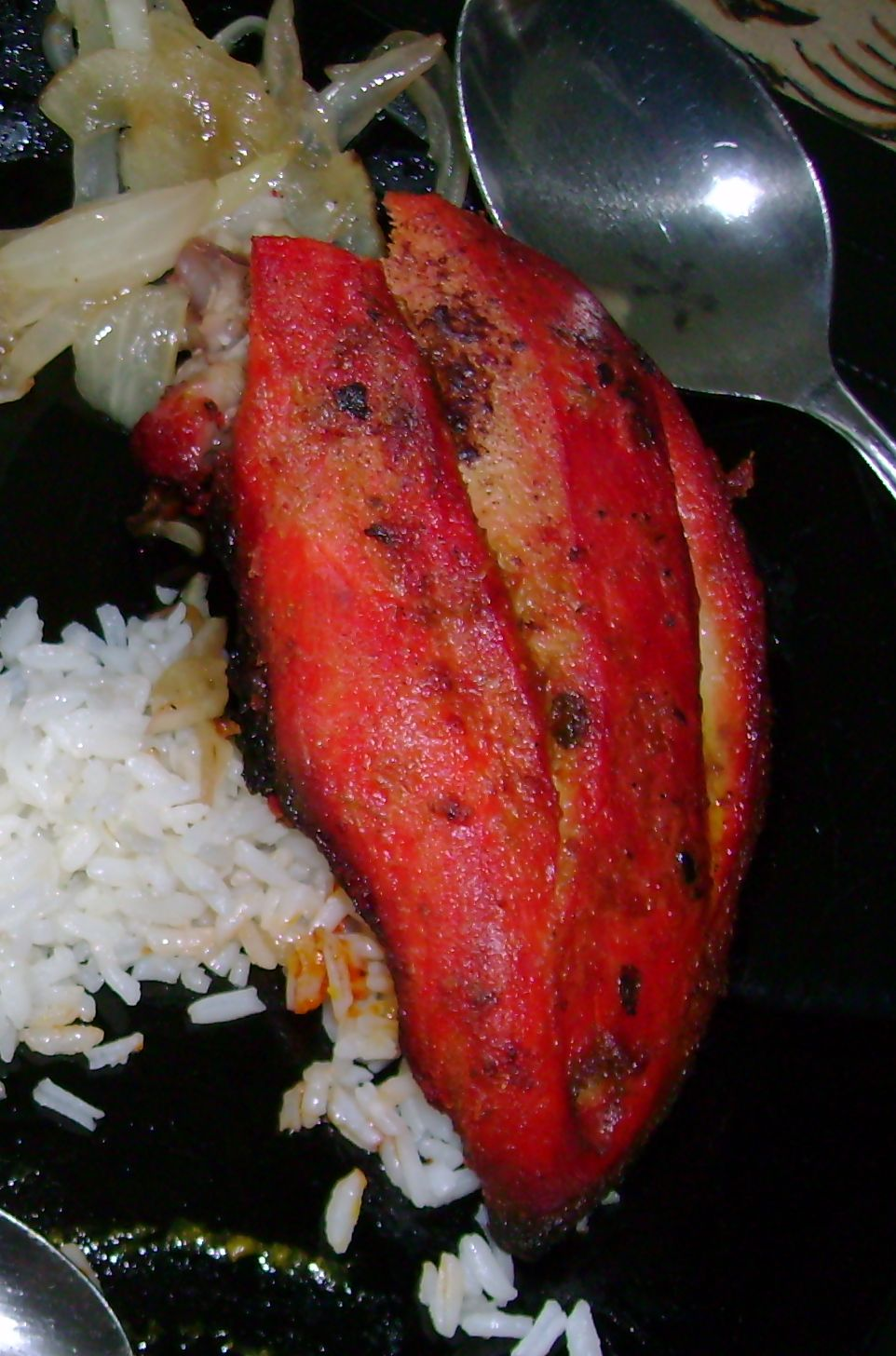 Chicken tandoori from Passage to India - Berkley, Michigan, USA